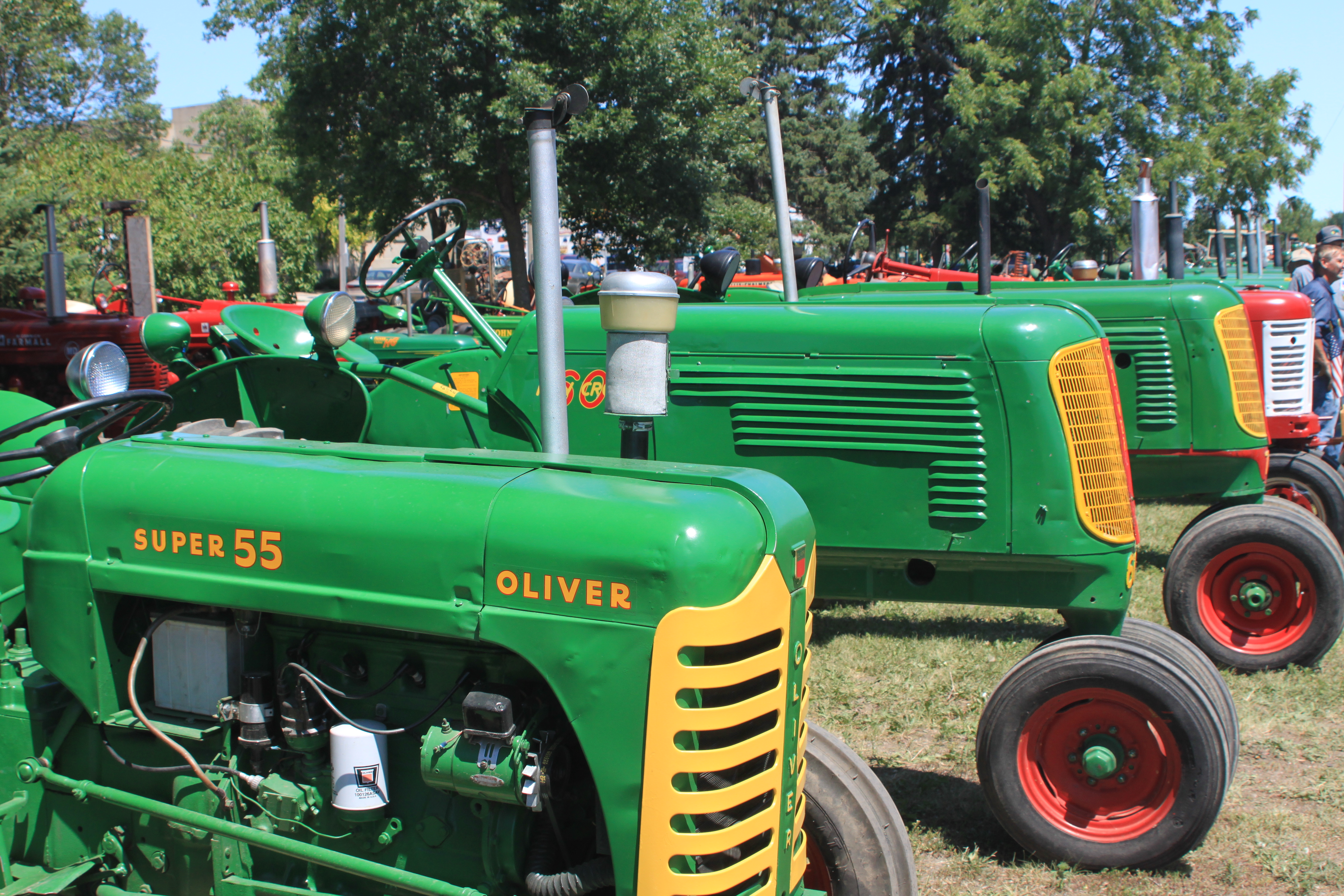 Oliver Super 55 and Super 60 Row Crop tractors in antique tractor show.